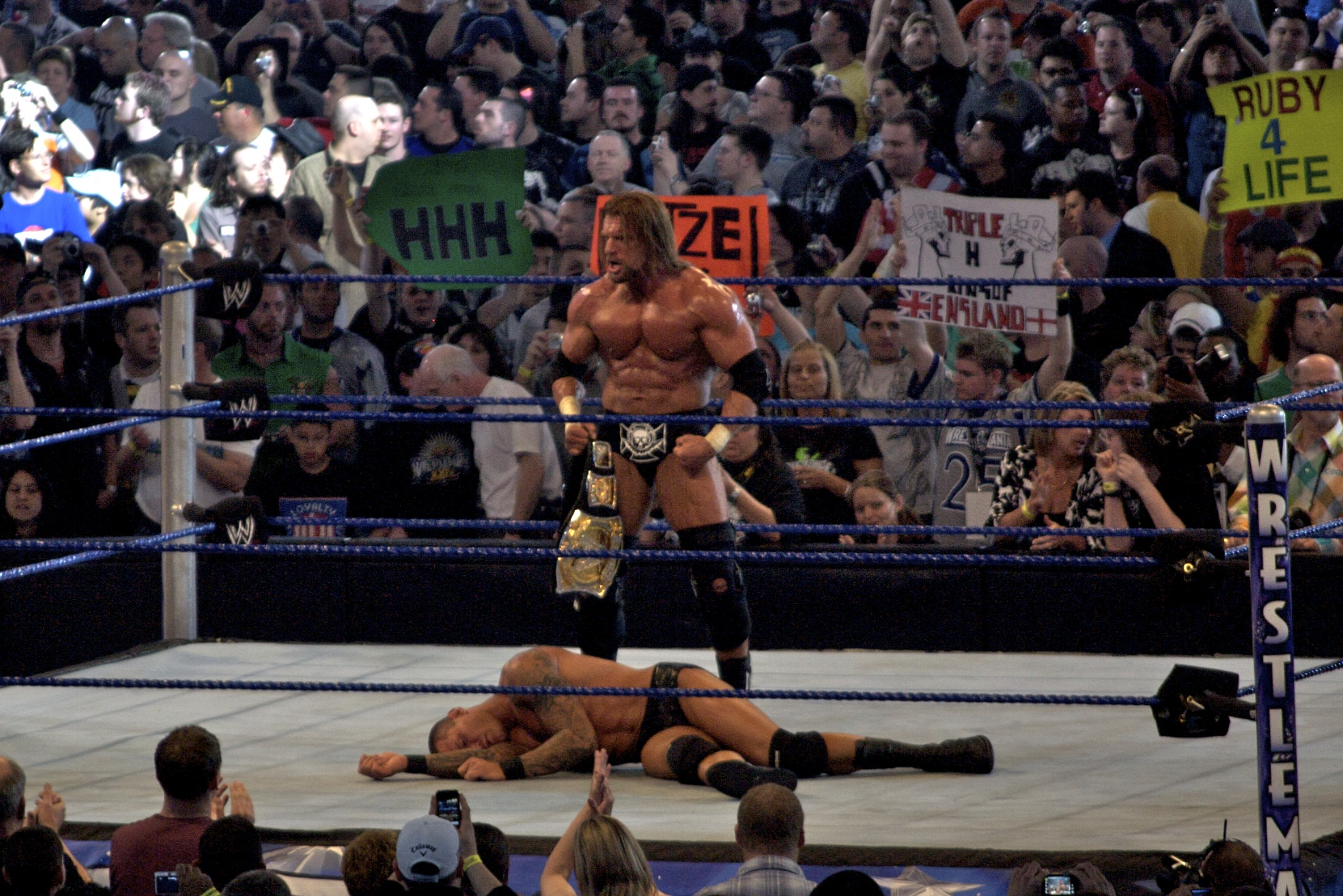 Triple H wins the WWE Championship Match against Randy Orton at Wrestlemania 25 at Reliant Park in Houston Texas 2009